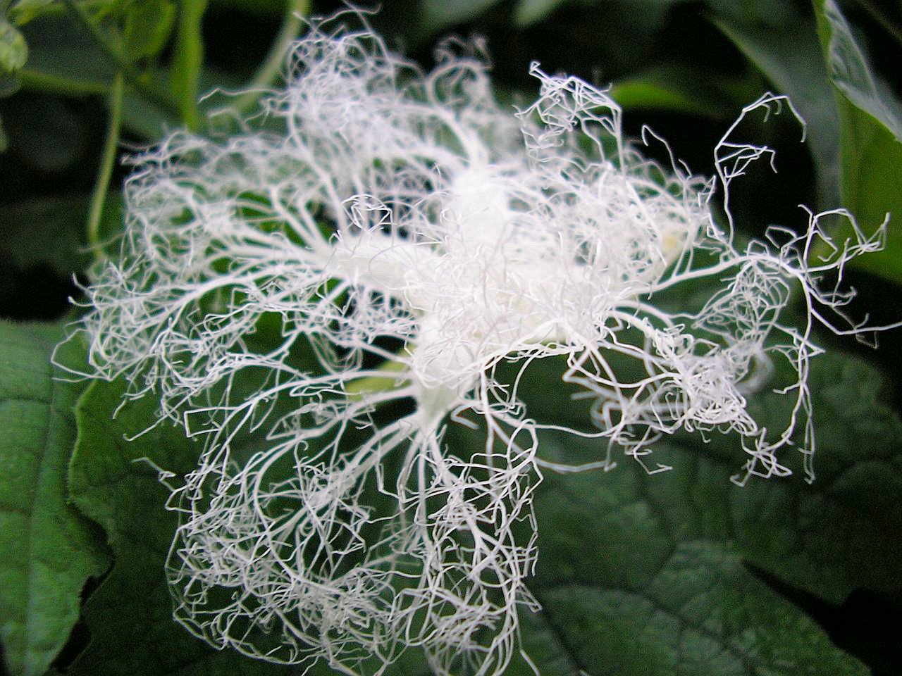 A flower of Trichosanthes cucumerina (snake gourd, serpent gourd, chichinga or padwal), not yet fully opened.